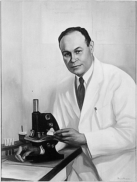 Portrait of Charles R. Drew, painted by Betsy Graves Reyneau No restrictions on the image